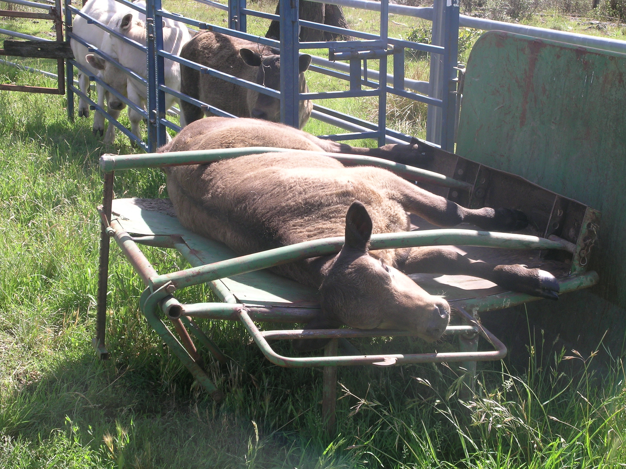 Murray Grey calf in a table cradle, awaiting branding, vaccination and an earmark